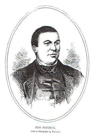 Engraving of Tom Paddock, champion English pugilist, from a 19th century edition of the Oxford Dictionary of National Biography.